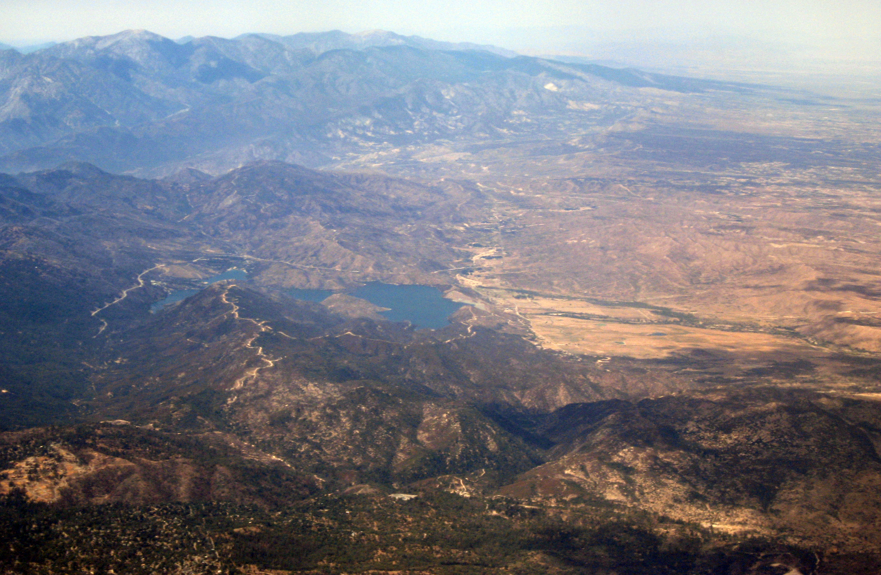 The Mojave Desert or High desert on the right, with the San Bernardino Mountains (near) and San Gabriel Mountains (far) of the Transverse Ranges System on the left. Silverwood Lake reservoir in the San Bernardinos is a part of the California State Water Project system infrastructure. The San Andreas Fault runs straight up the middle, from San Bernardino County toward Los Angeles County on the horizon. The mountain ranges are formed by the Pacific Plate colliding into the North American Plate, right here, on this boundary. The 2 mountain ranges are also headed northwest. Here we are looking at the one section of the famous fault where a collision is actually taking place, because this is where the fault bends west before heading north again.